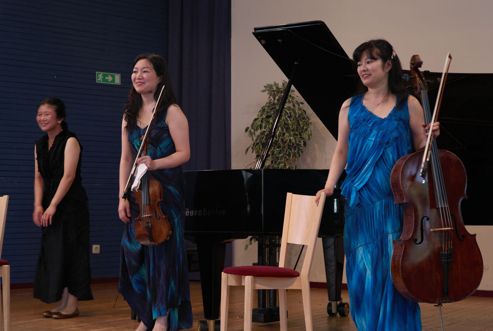 Fujita Piano Trio live at Falkenberg Sweden